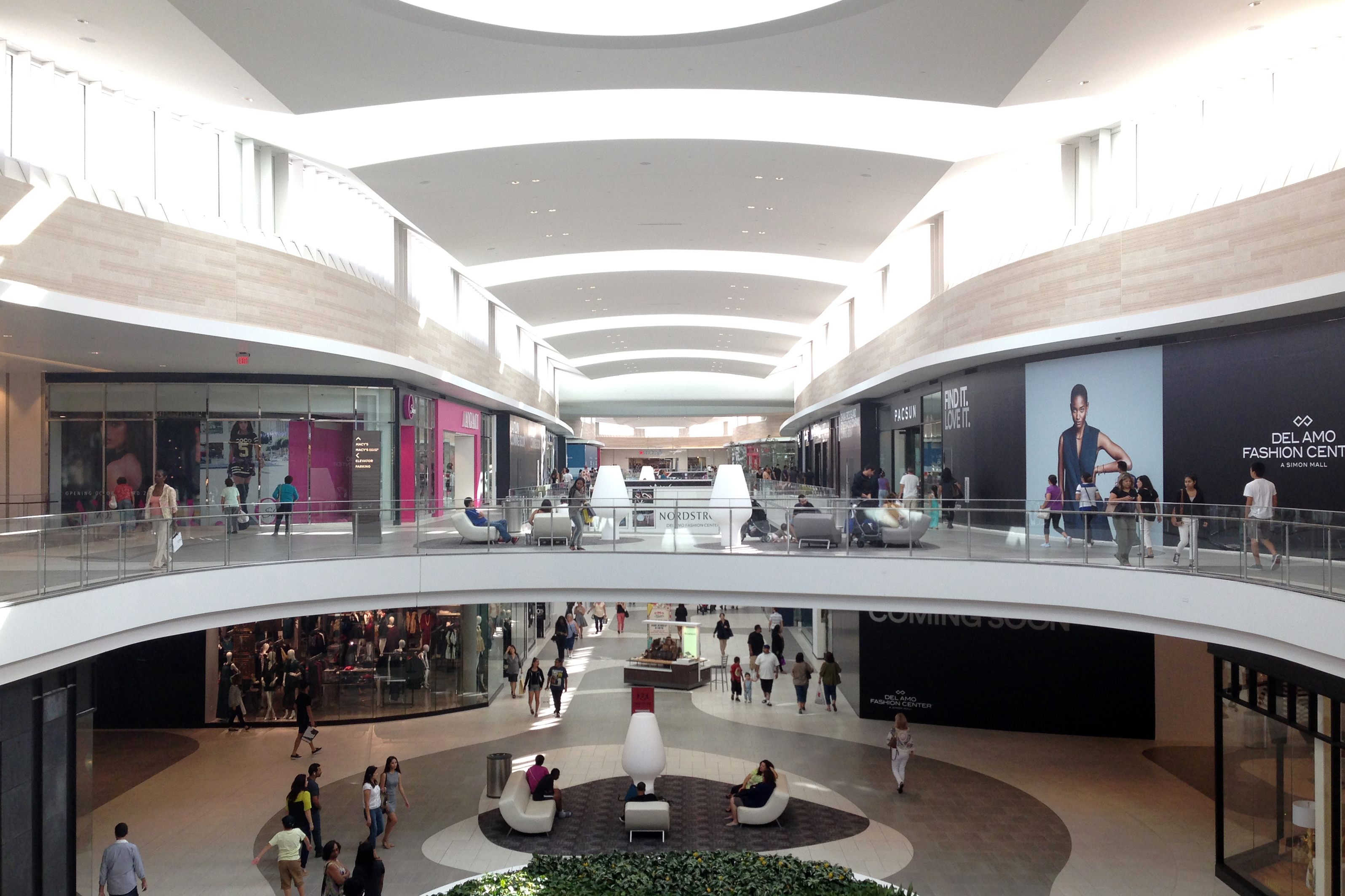 Interior of the Del Amo Fashion Center, looking south from Nordstroms.